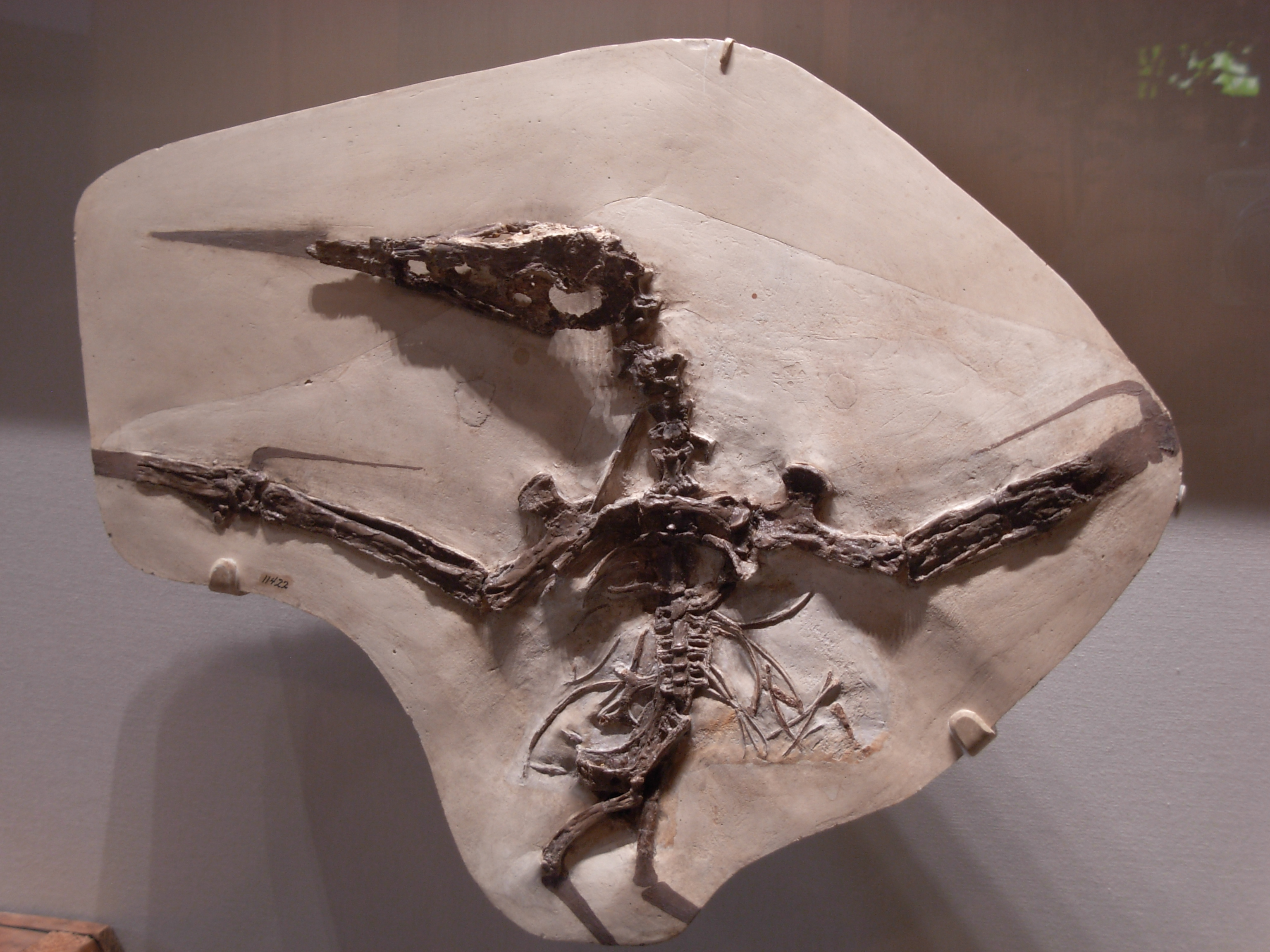 Nyctosaurus at the Carnegie Museum of Natural History